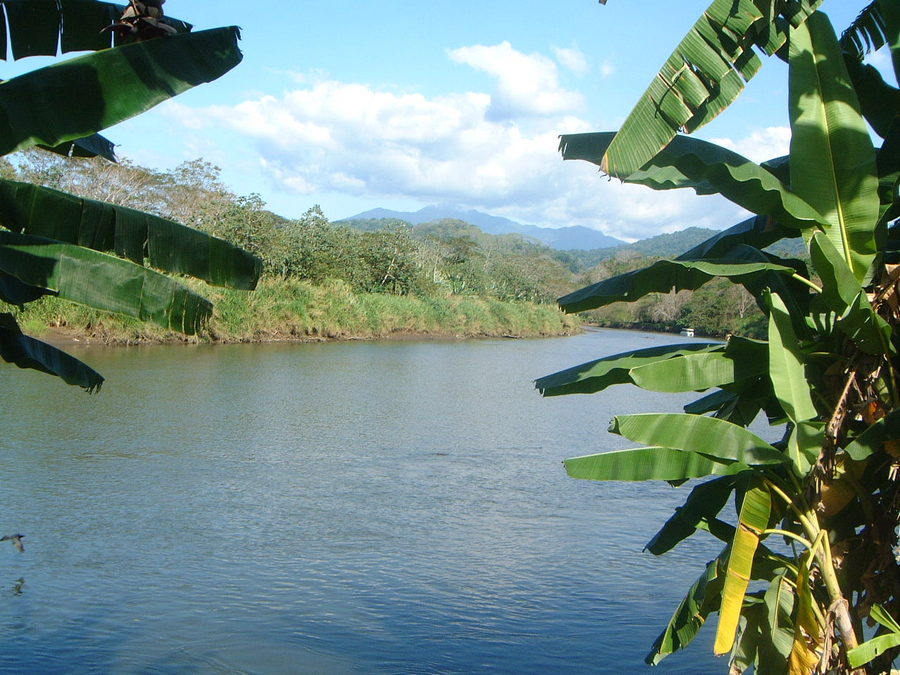 The Tárcoles River in Costa Rica. My image, February 2006 jimfbleak 08:51, 10 August 2006 (UTC)